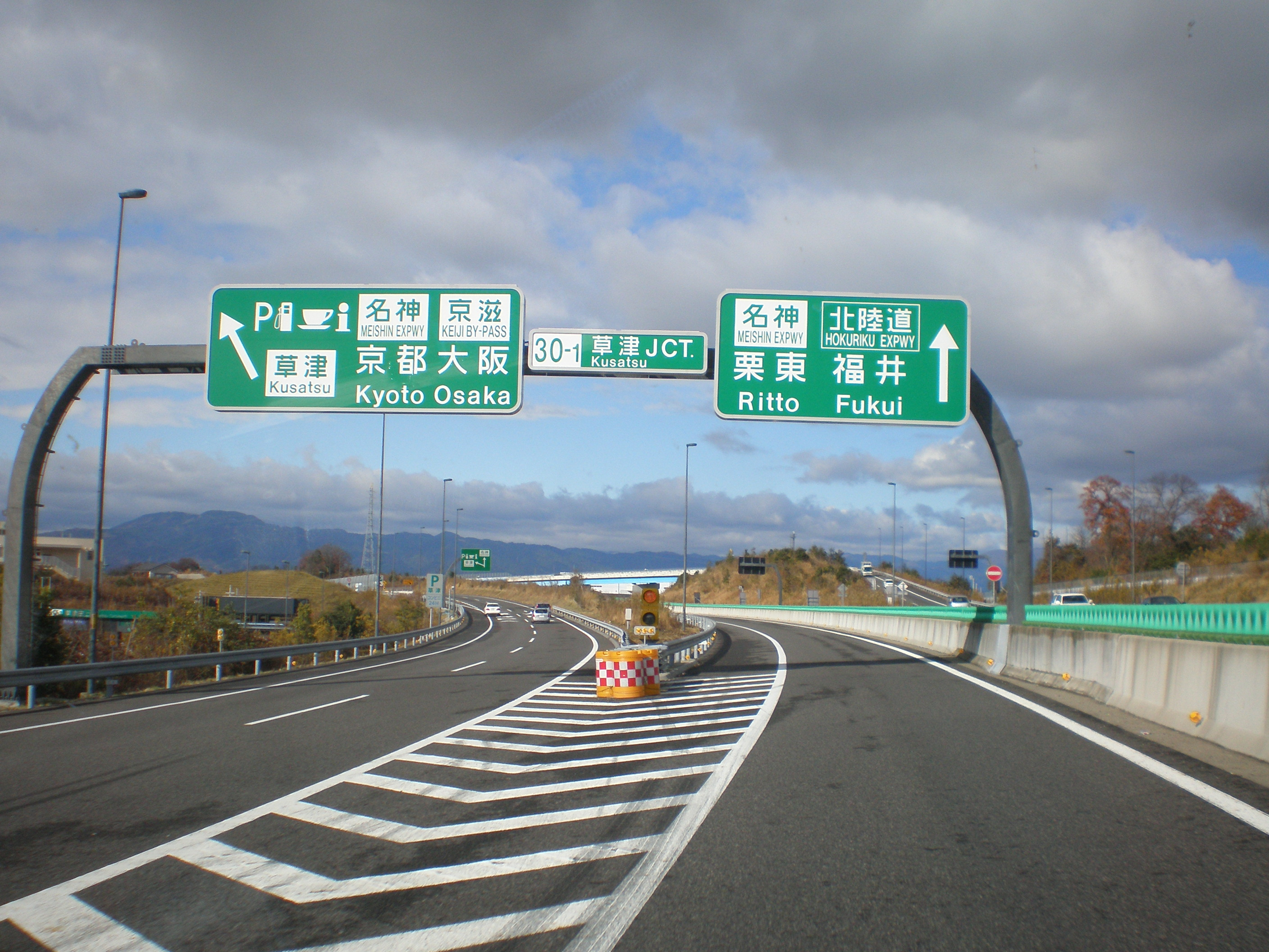 Kusatsu Junction